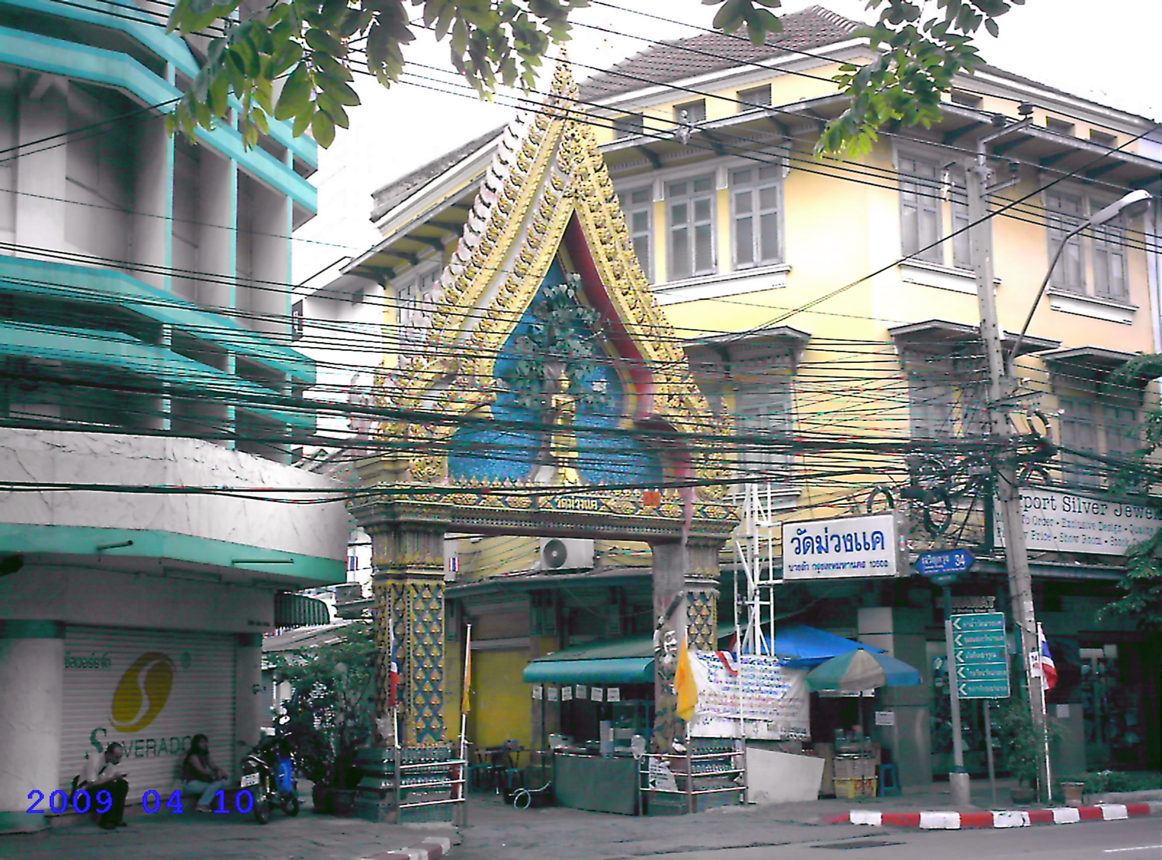 Main Gate of Wat Muang Khae (วัดม่วงแค), Charoen Nakhon Road, Bangkok, Thailand. 中文（香港）: 泰國，曼谷，然那哇縣，石龍軍路 42/1號，鄰近石龍軍42街，哇萱蒲寺，大門。